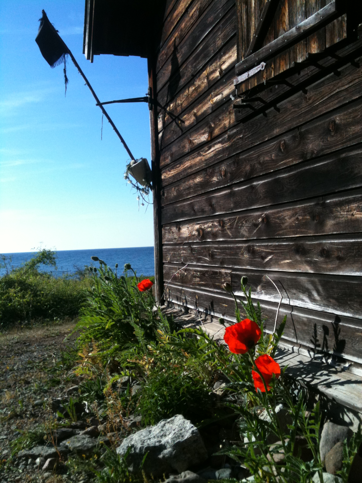 Brucebo artist´s home, the atelier by the Sea